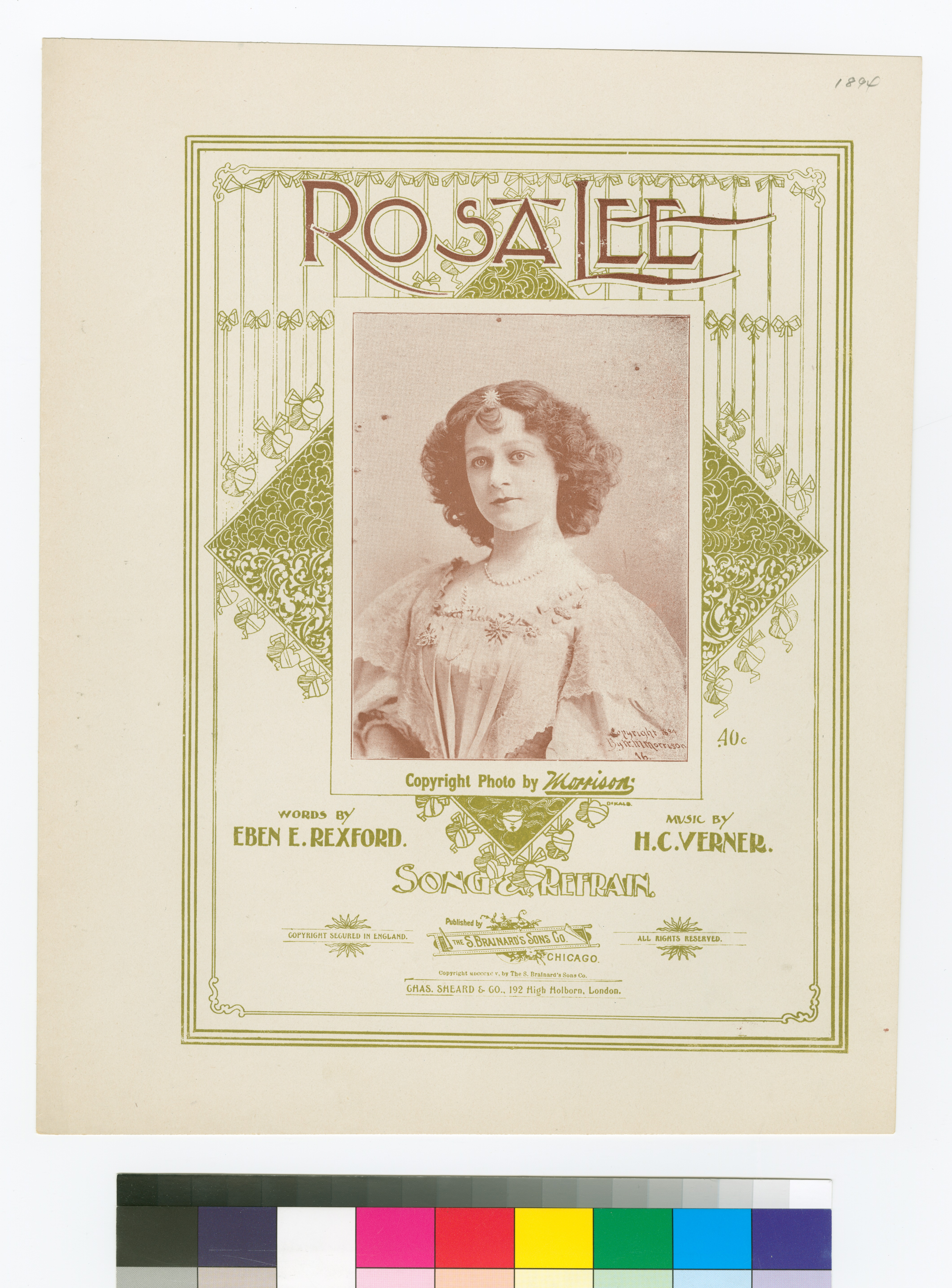 Cover includes a photograph of an unidentified woman; photograph copyright 1894 by Morrison. Statement of responsibility : words by Eben E. Rexford ; music by H.C. Verner.